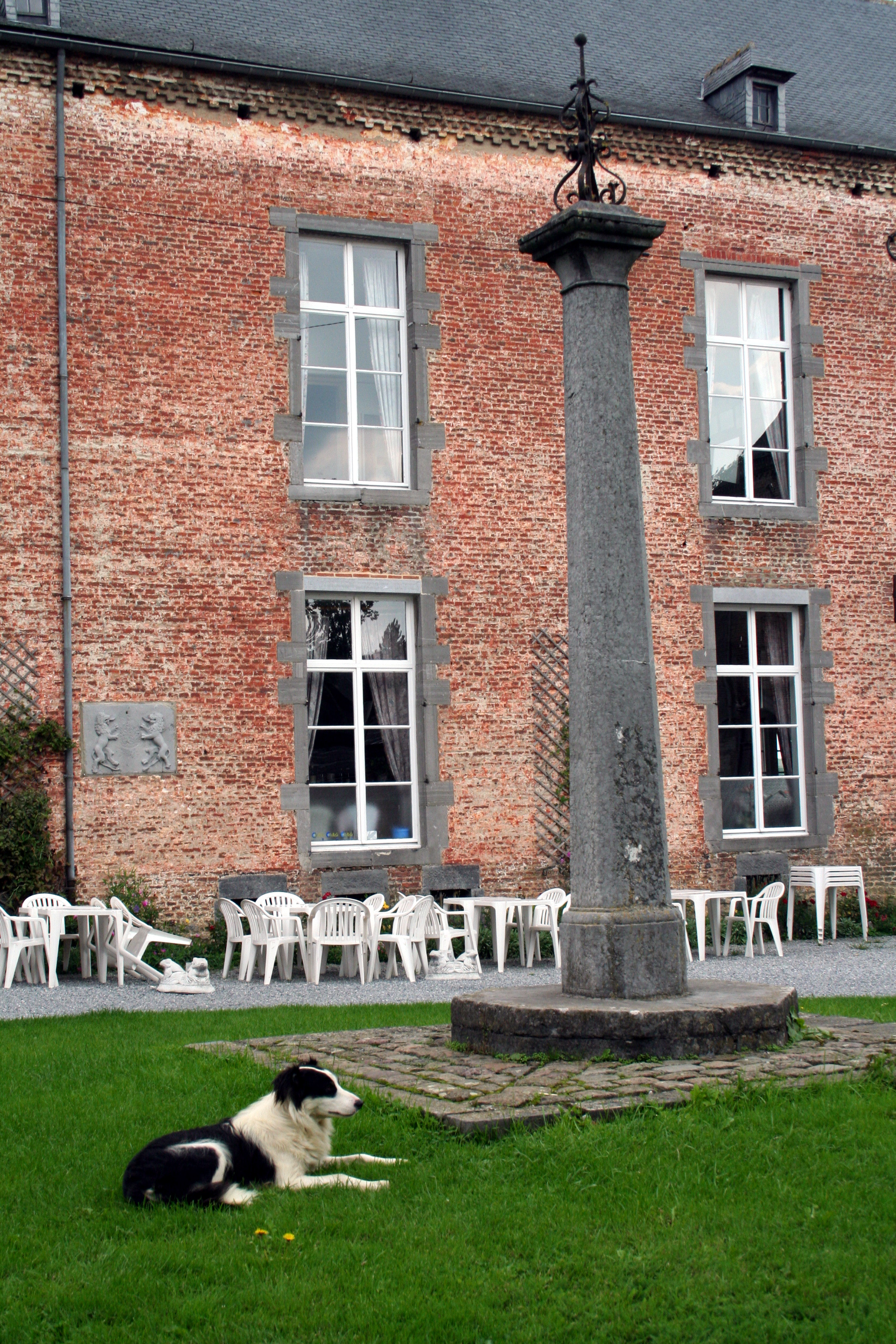 Falaën (Belgium), the pilory of the castle-farm (XVIIth century).